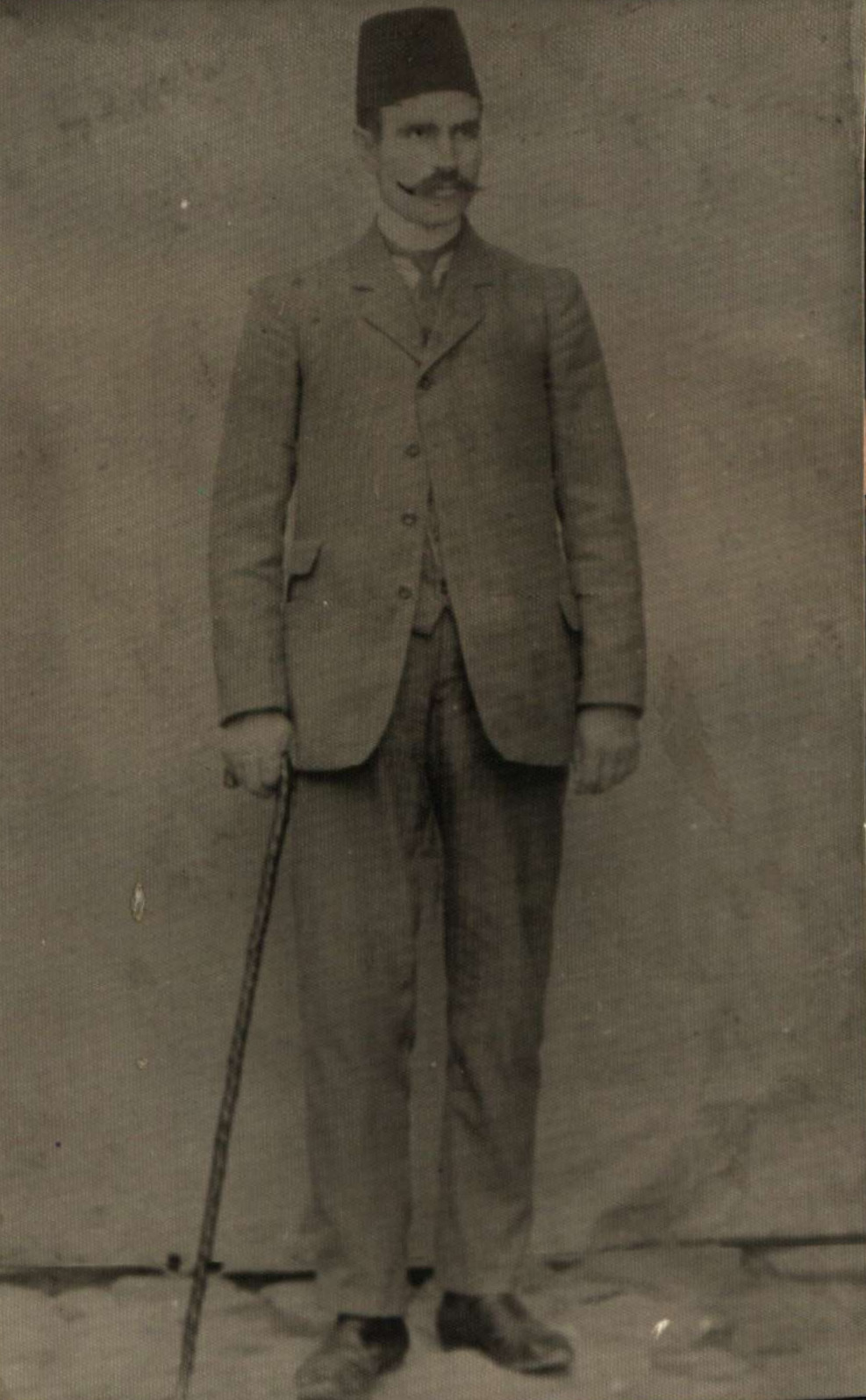 Lazar Tomov, Nevrokop